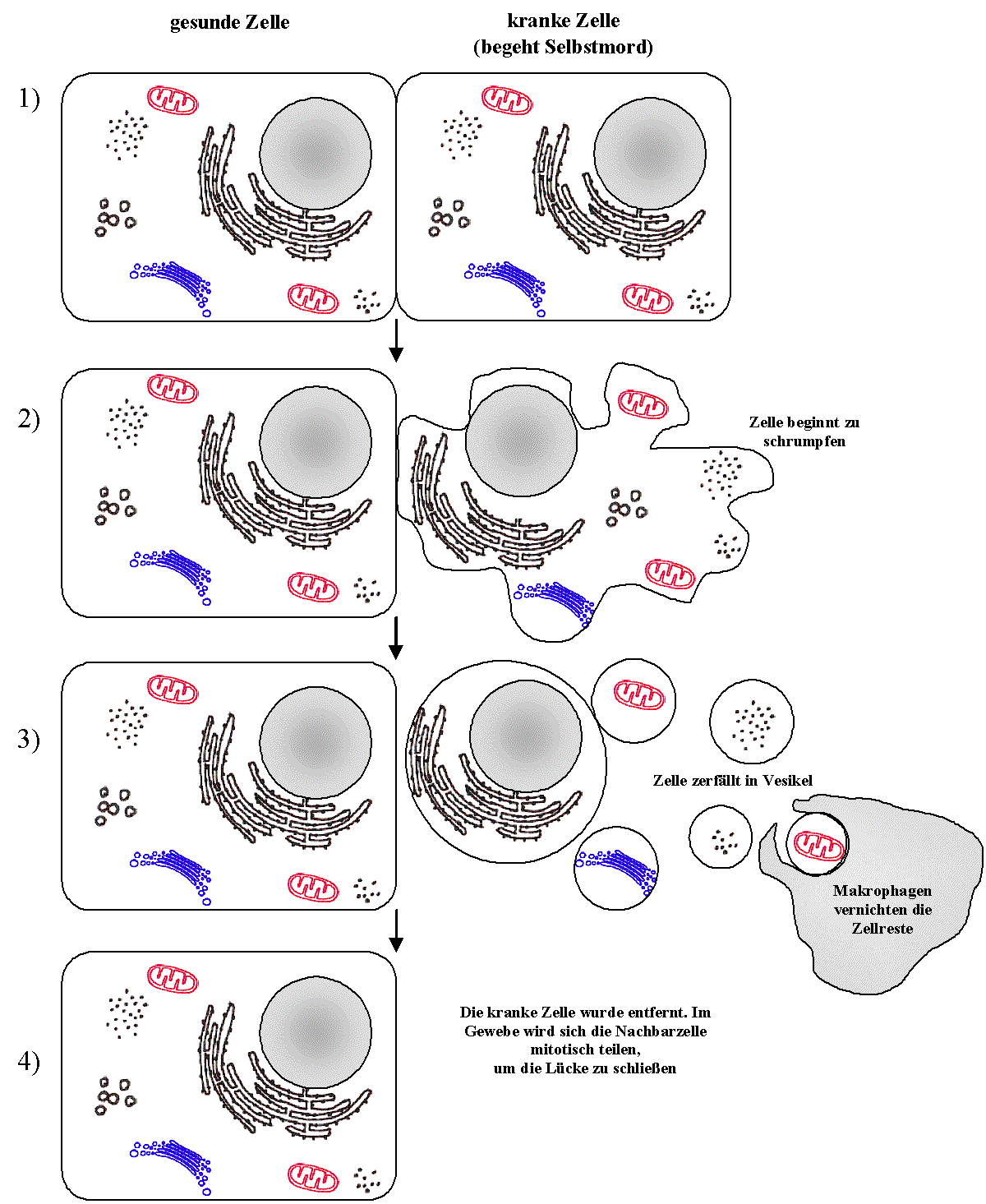 Labelled diagram of a cell undergoing apoptosis